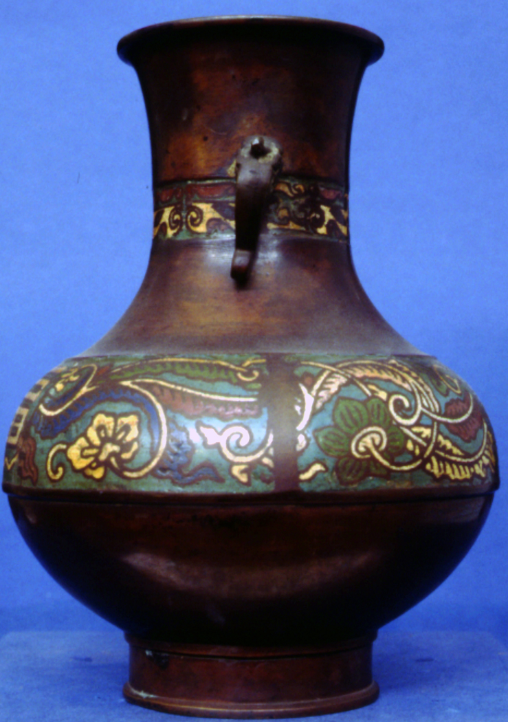 Vase, bronze, round, with longish neck, bands of champlevé around neck and body of vase, two small handles on neck